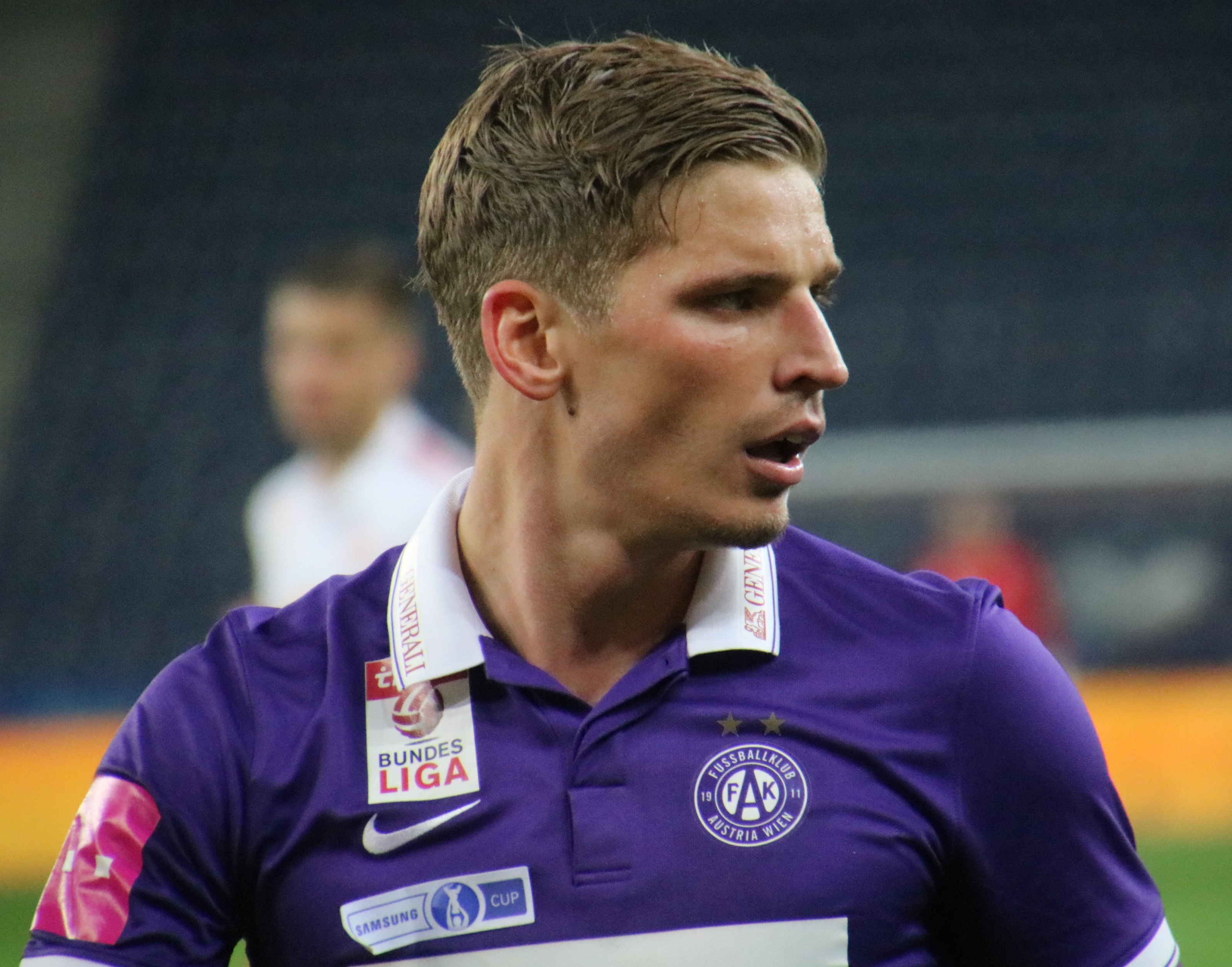 cup match Austria